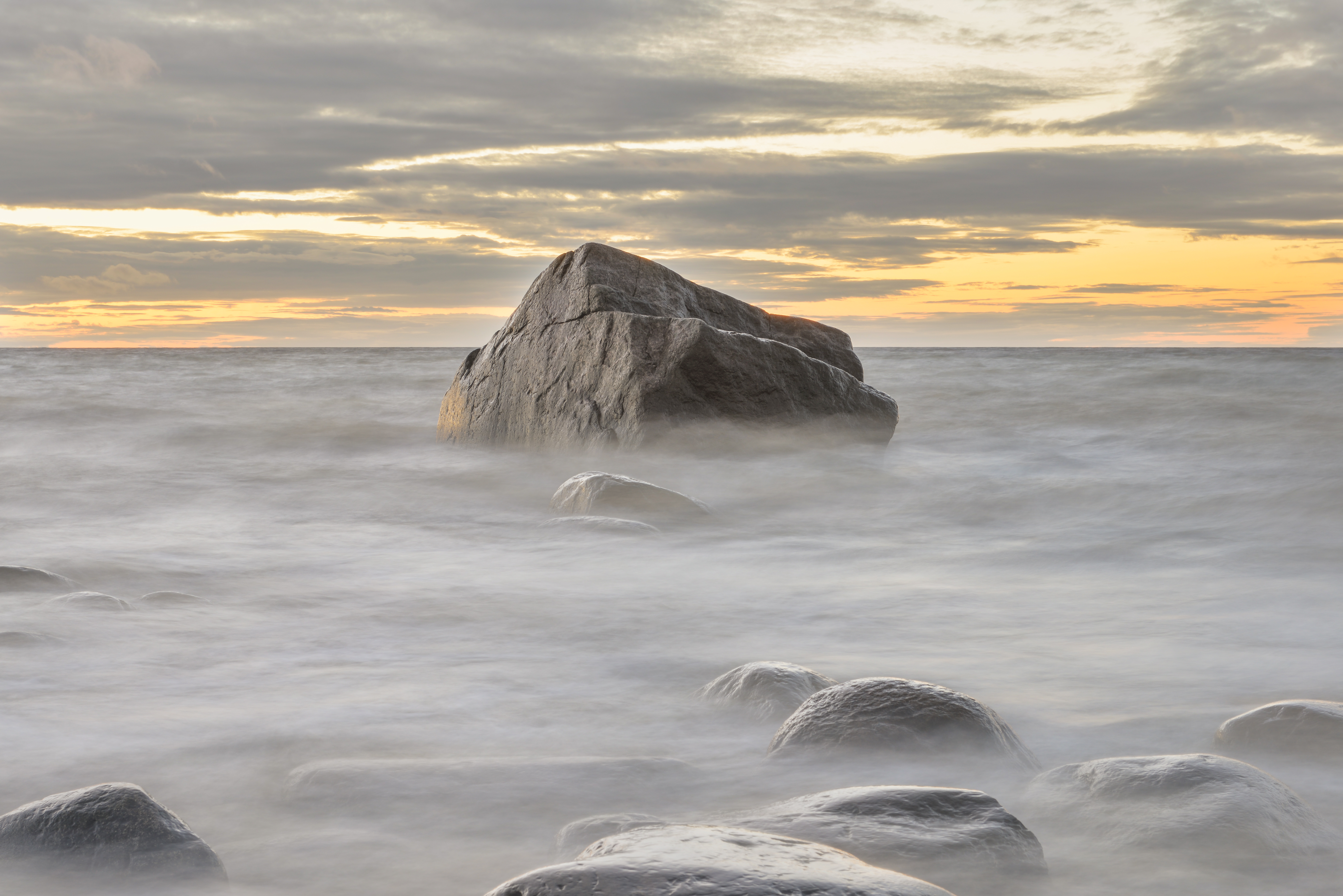 Northernmost point in mainland Estonia at the end of October. Weather was very windy (up to 20 m/s), water level was high and sun had just set down moments ago. The photo was taken after sunset at Cape Purakkari. There are glacial boulders in the picture. It was a stormy day at the Baltic Sea. Long exposure makes the waves look like mist.